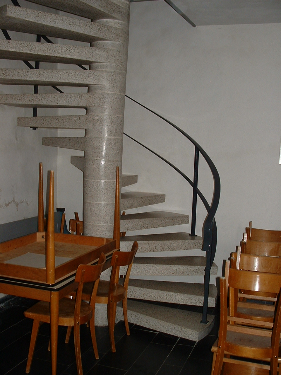 Protestant church Hirschfeld, Hunsrück, Germany, Rhineland-Palatinate Stairs to the gallery